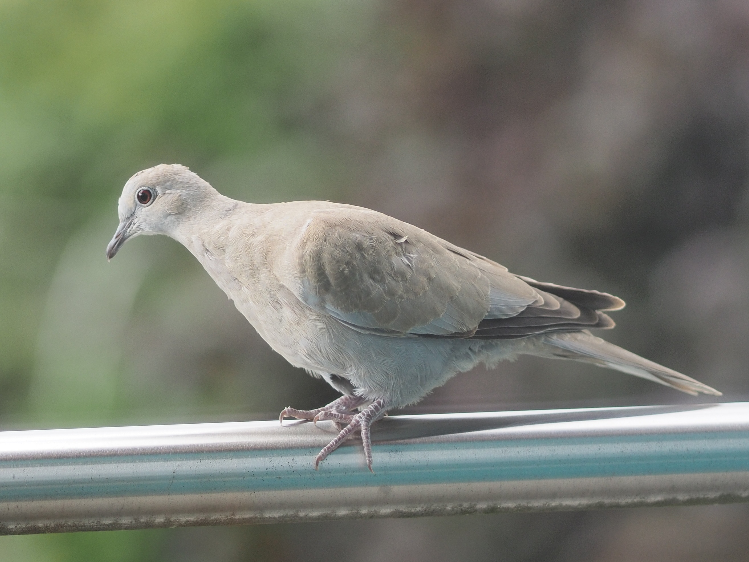 Juvenile Streptopelia decaocto